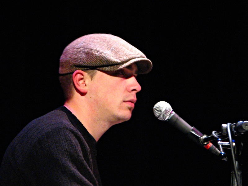 My friend, singer/pianist/songwriter Eli Mattson; taken during soundcheck for his concert at the Meyer Theatre in Green Bay, Wisconsin. Eli took 2nd place in the recently completed season of America's Got Talent.